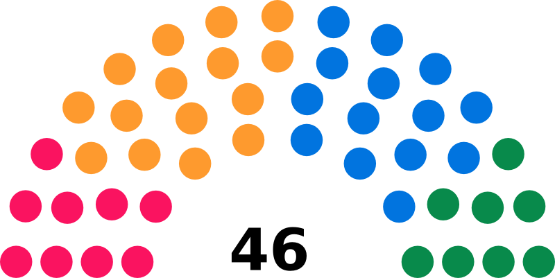 Seats diagramme of Swiss Council of States (2003)